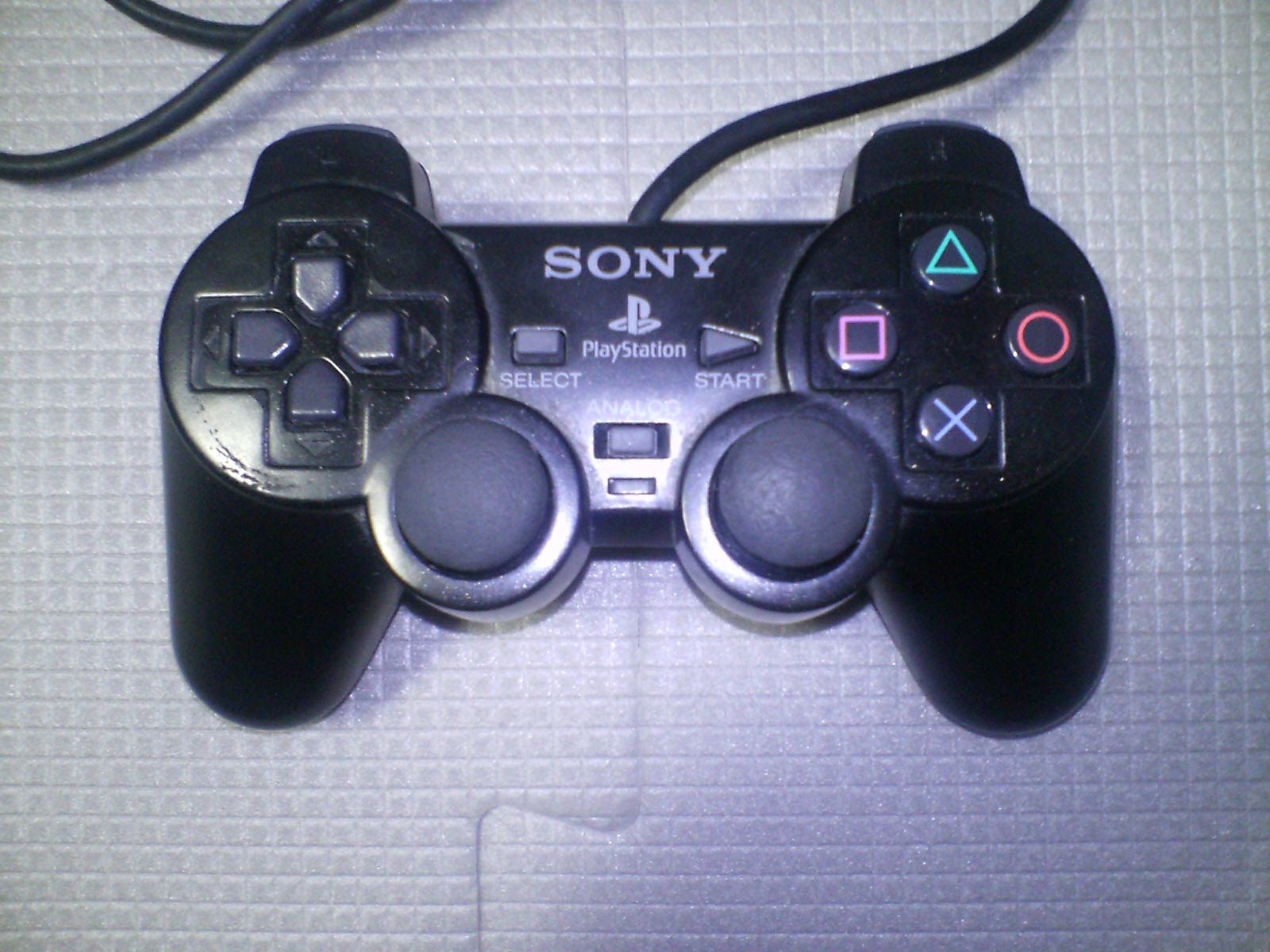 DualShock2, Analog controller for PlayStation 2